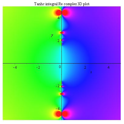 Tanhc integral Re density plot